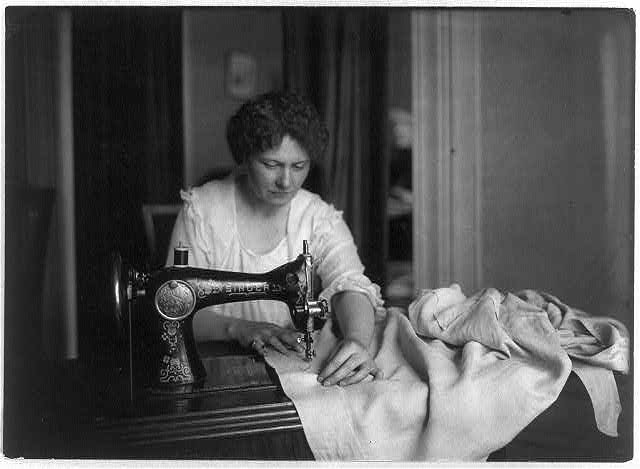 Woman sewing on old treadle machine